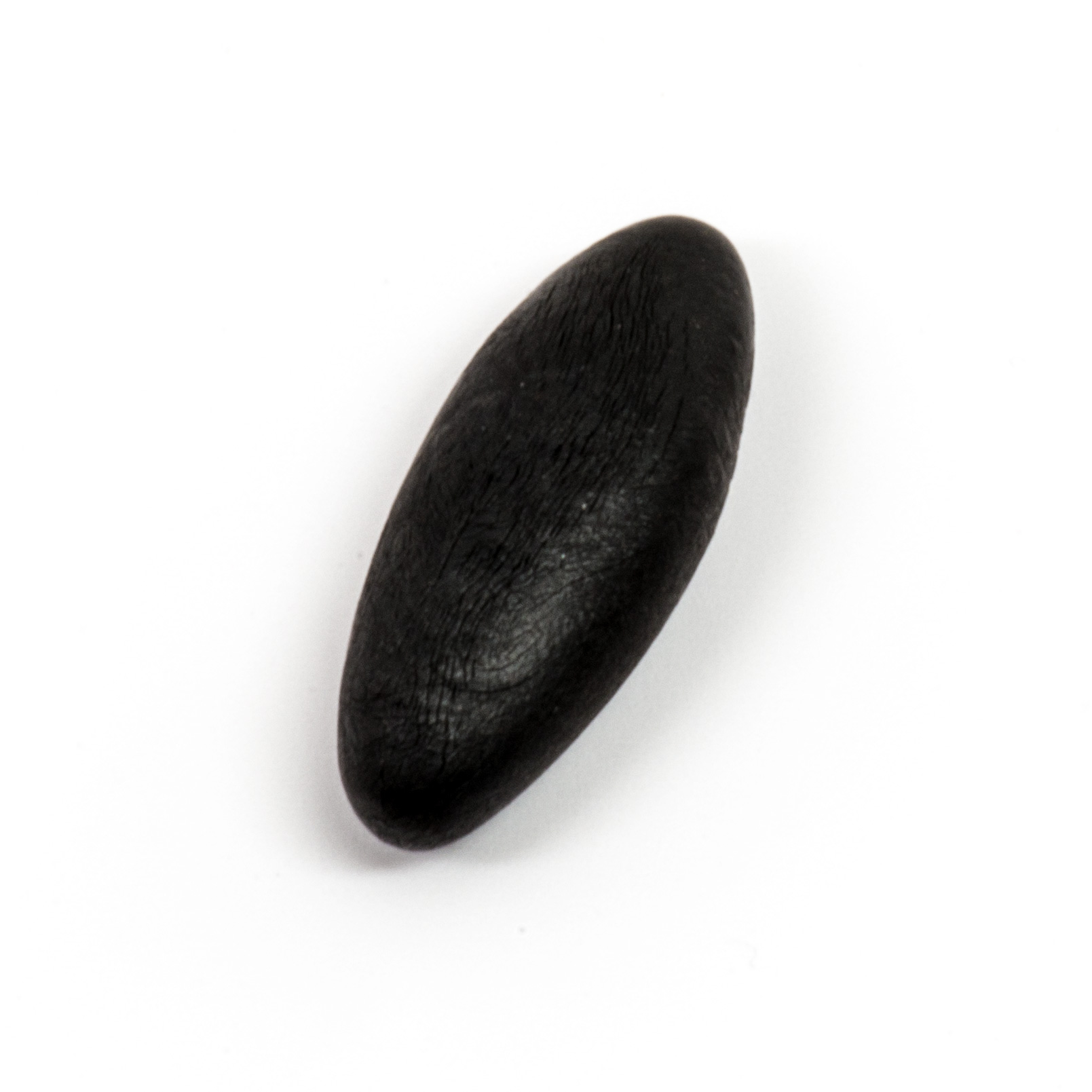 The close photo of 1 gram of purified Shilajit aka Mumio ready for consumption. It is a dry resin form of Shilajit that carry about 9%-7% of moisture.